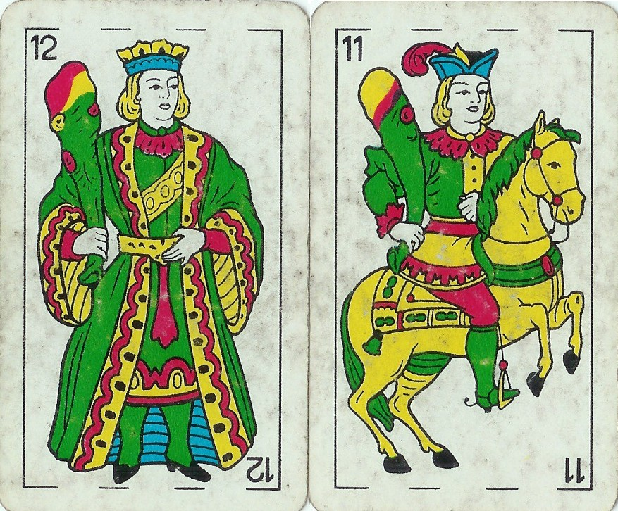 A king and a knight of bastos of the Baraja used in the Tute for cantar for 20 points or in case that this palo is the triunfo, 40 points.